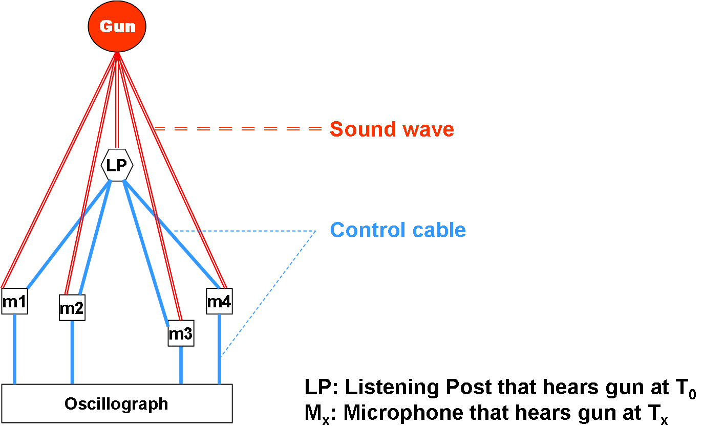 World War I Canadian artillery locating by sound-ranging